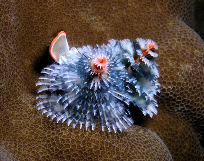 Christmas tree worm. Spirobranchus giganteus